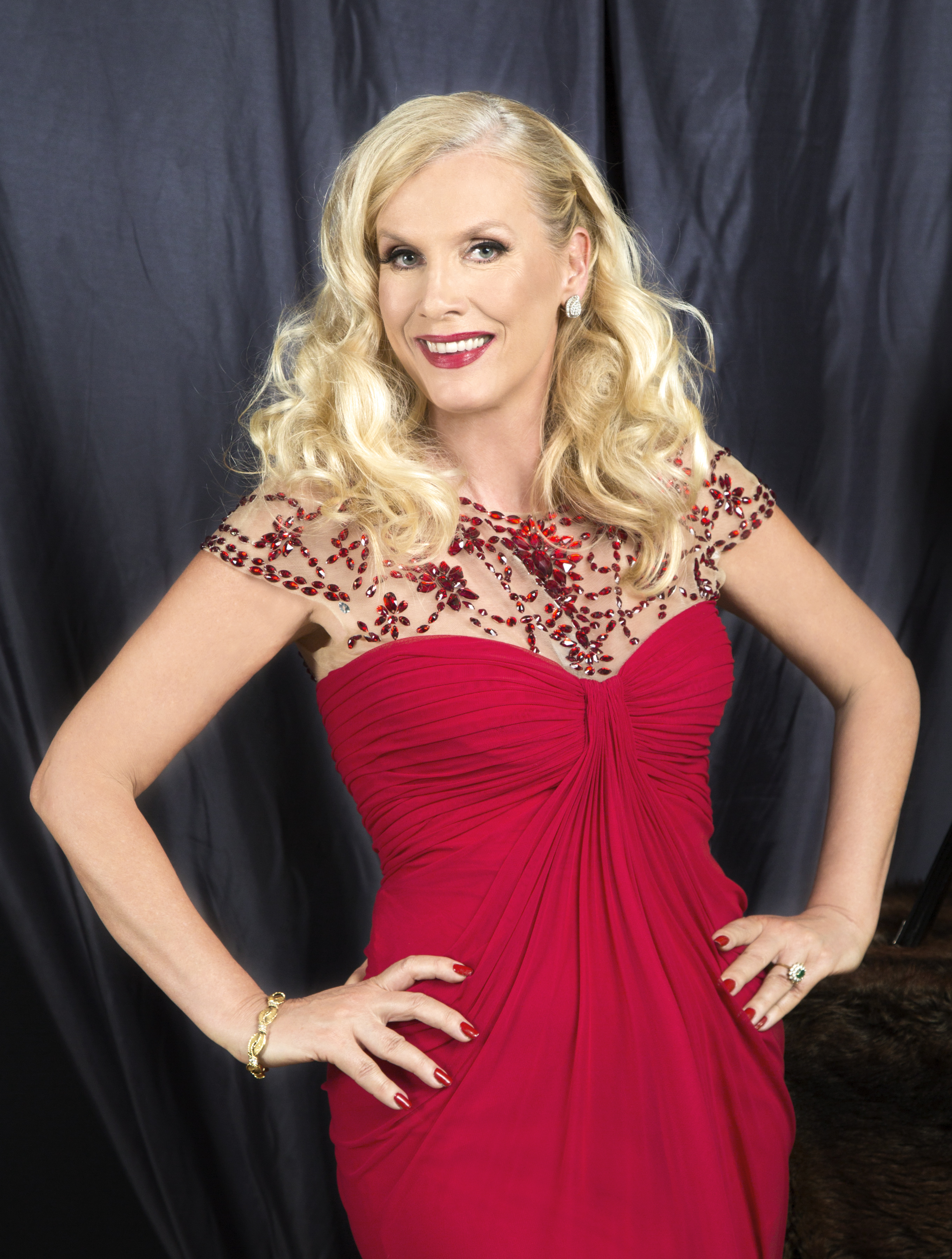 Gunilla Persson.